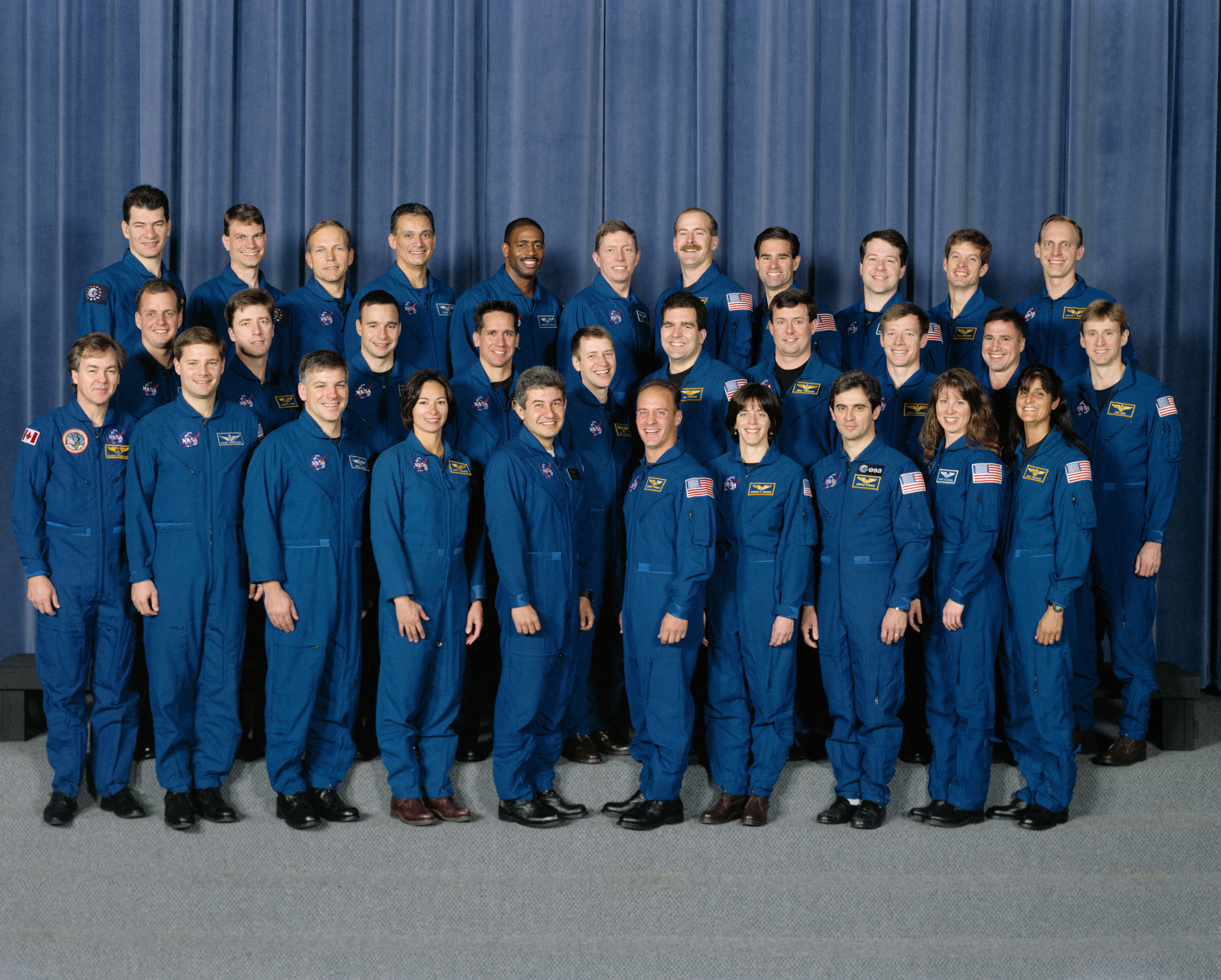 S99-01391 (February 1999) --- Thirty-one 1998 astronaut candidates, including six international mission specialist trainees, pose for a class picture. Front row, left to right: Bjarni V. Tryggvason, Douglas H. Wheelock, Gregory H. Johnson, Patricia C. Hilliard, Marcos Pontes, Garrett E. Reisman, Barbara R. Morgan, Leopold Eyharts, Tracy E. Caldwell and Sunita L. Williams. Middle row: Timothy J. Creamer, Roberto Vittori, Lee J. Archambault, William A. Oefelein, Gregory C. Johnson, Neil W. Woodward, Michael J. Foreman, Christopher J. Ferguson, George D. Zamka and Kenneth T. Ham. Back row: Paolo Nespoli, Stanley G. Love, Hans Schlegel, John D. Olivas, Leland D. Melvin, Michael E. Fossum, Alan G. Poindexter, Gregory E. Chamitoff, Nicholas J. M. Patrick, Steven R. Swanson and Clayton C. Anderson. The international candidates are Eyharts, Nespoli, Schlegel and Vittori, all representing the European Space Agency (ESA); Tryggvason, from the Canadian Space Agency (CSA); and Pontes, the first astronaut candidate representing the Brazilian Space Agency (BSA).